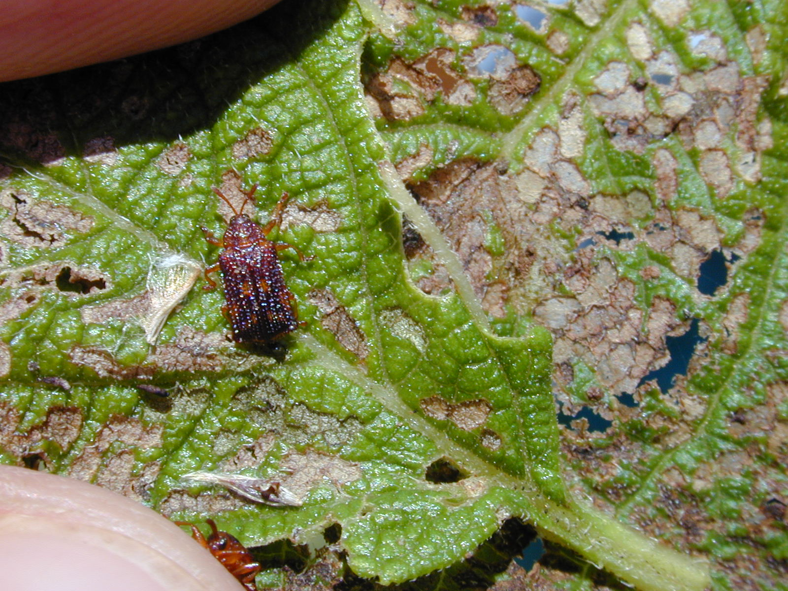 Lantana camara (biocontrol Chrysomelidae Coleoptera). Location: Maui, Kapalua